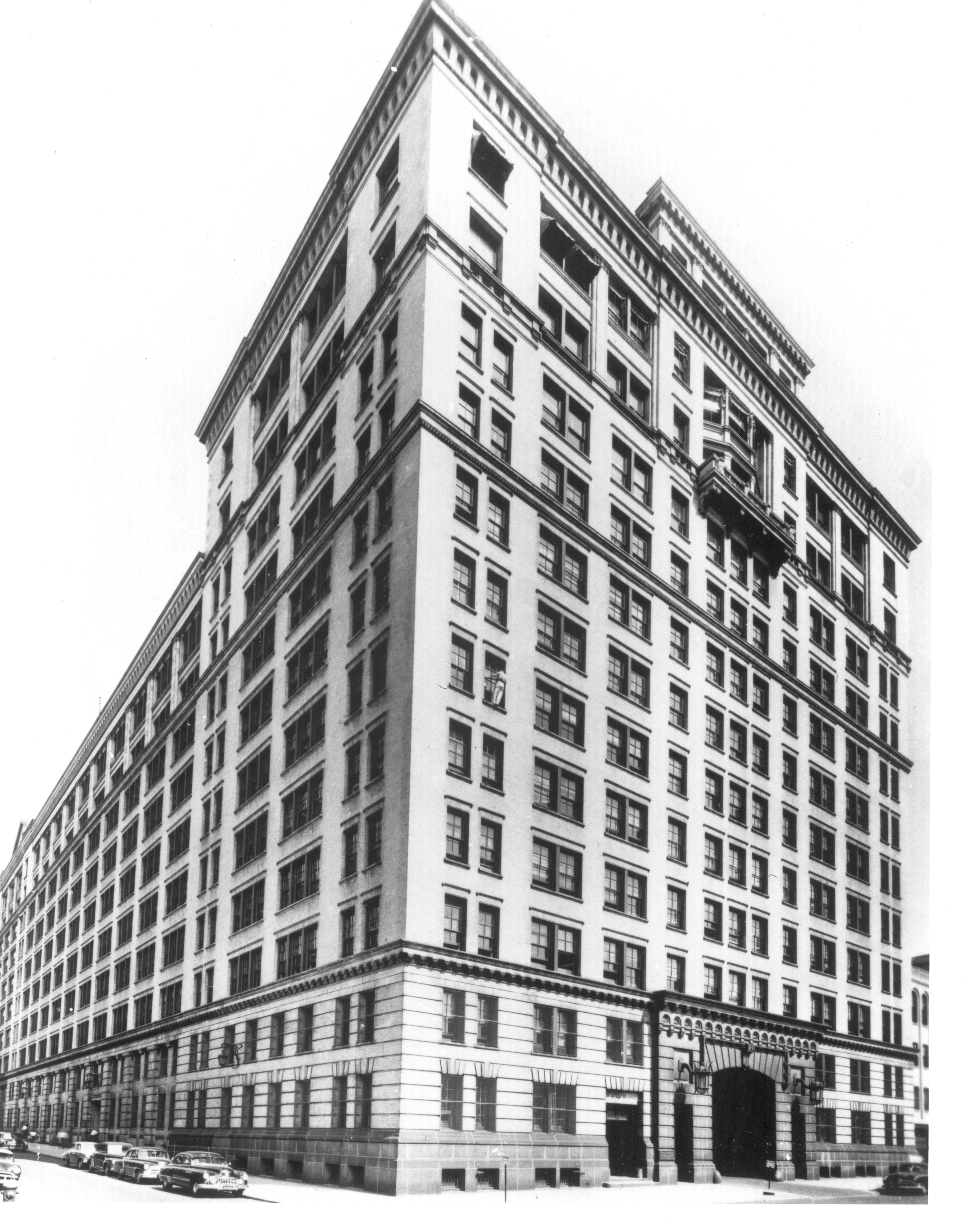 The original 463 West Street NY location for Bell Laboratories, originally purchased by Western Electric in 1896 and later occupied by Bell Laboratories beginning in 1925.